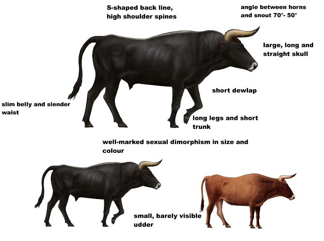 The most important external features of the aurochs at one sight.